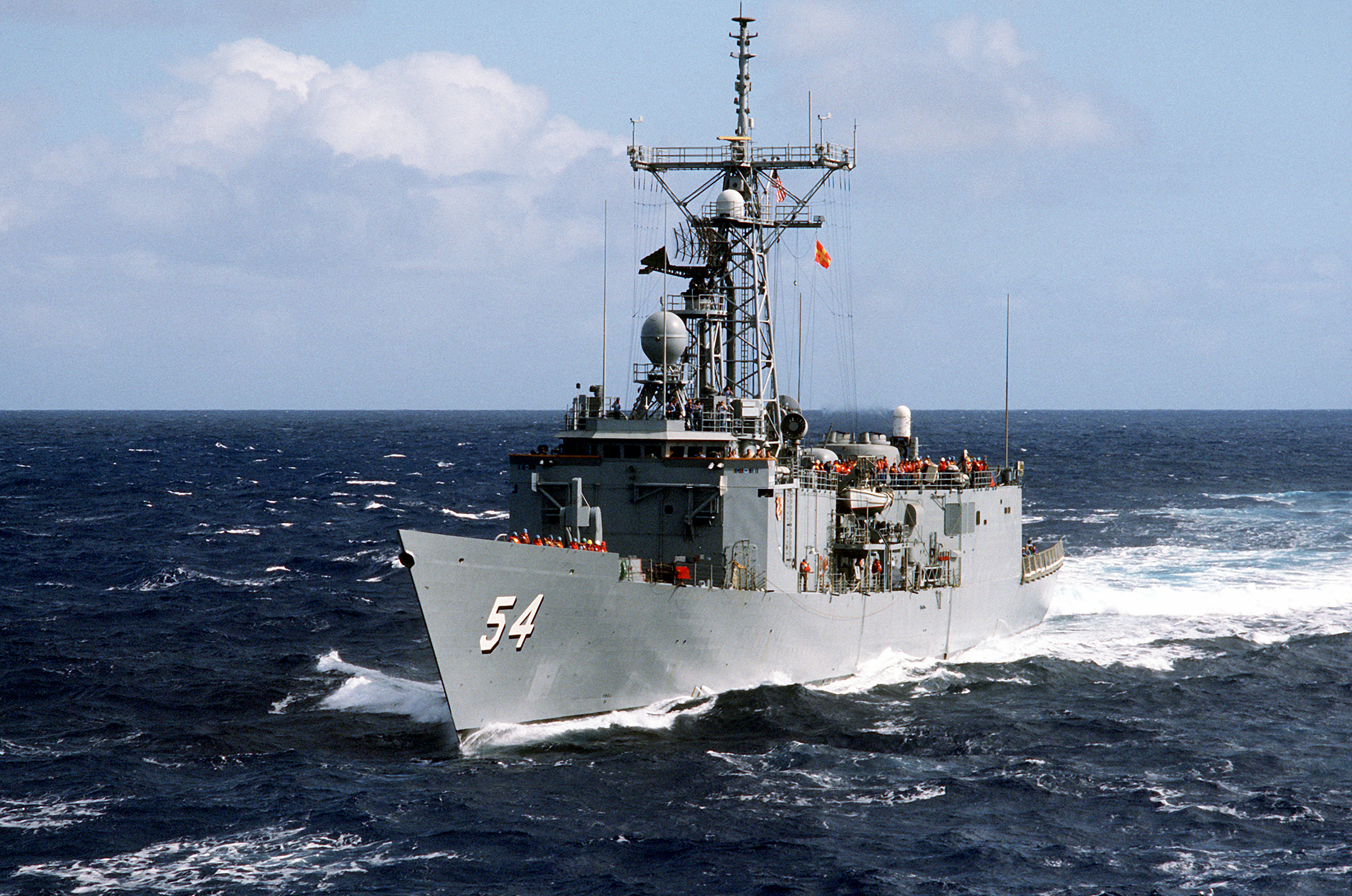 A port bow view of the guided missile frigate USS FORD (FFG-54) underway on patrol as part of a multinational force stationed in the region to safeguard shipping during the war between Iran and Iraq.